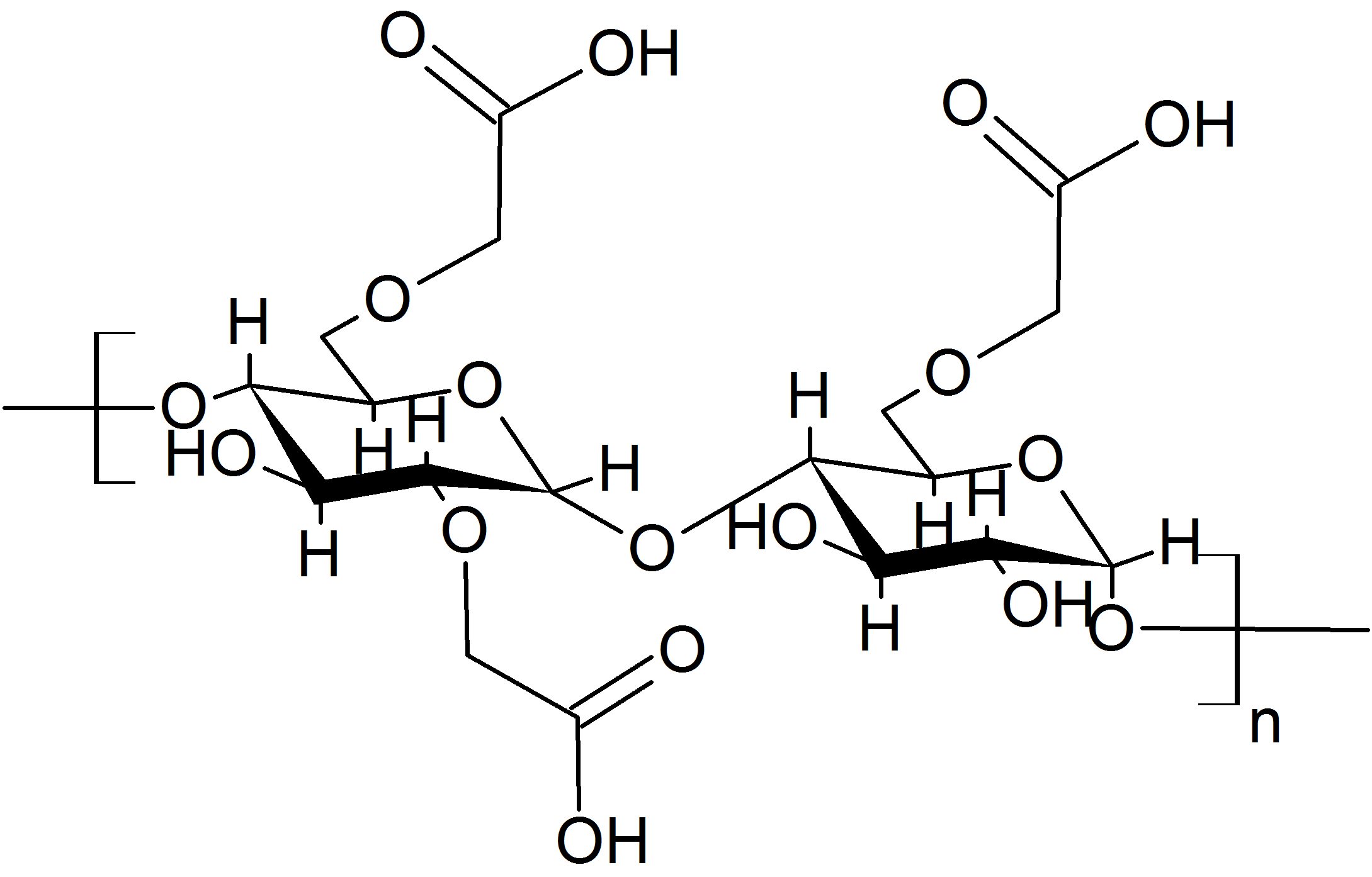 Carboxymethyl starch